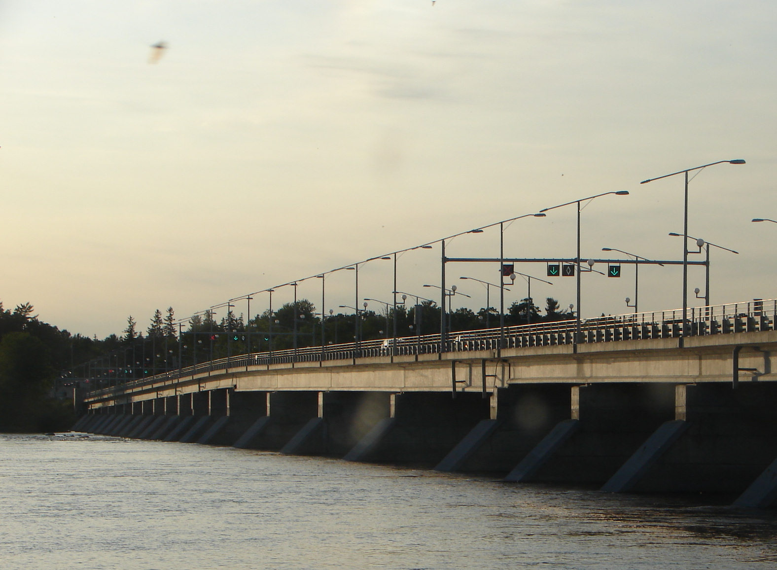 Champlain Bridge between Ottawa (Ontario) and Aylmer (Quebec) over the Ottawa River, Canada. Viewed towards Aylmer.